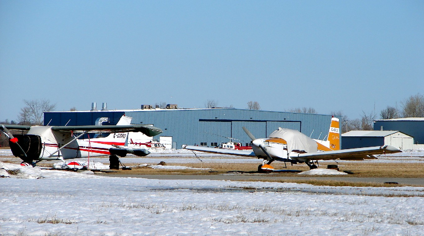 Carp Airport, Ottawa, Ontario, Canada